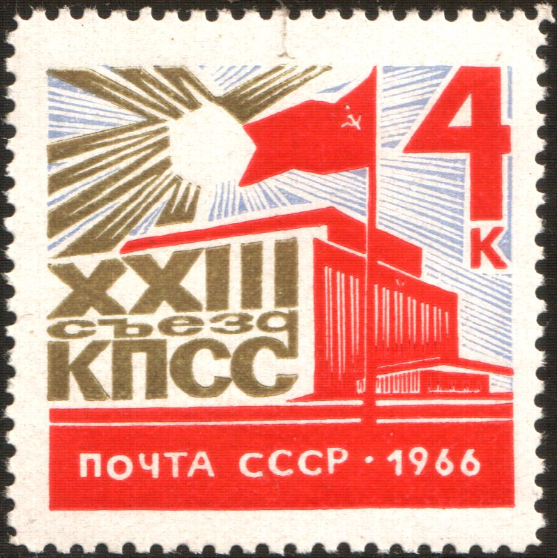 23rd Congress of the Communist Party of the Soviet Union, stamp of the Soviet Union, 1966, 4 kopecks